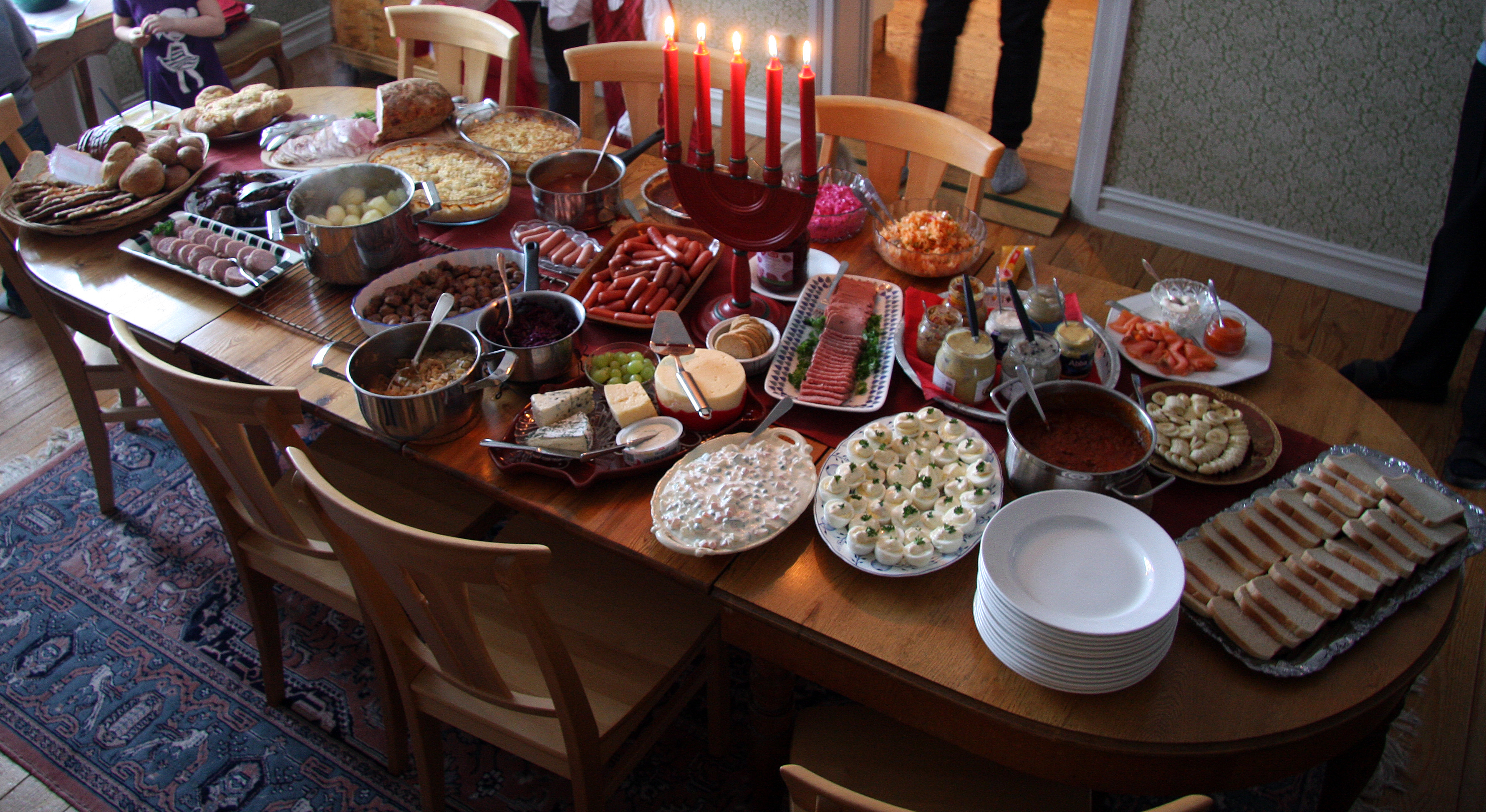 Swedish Christmas smörgåsbord in a home setting.